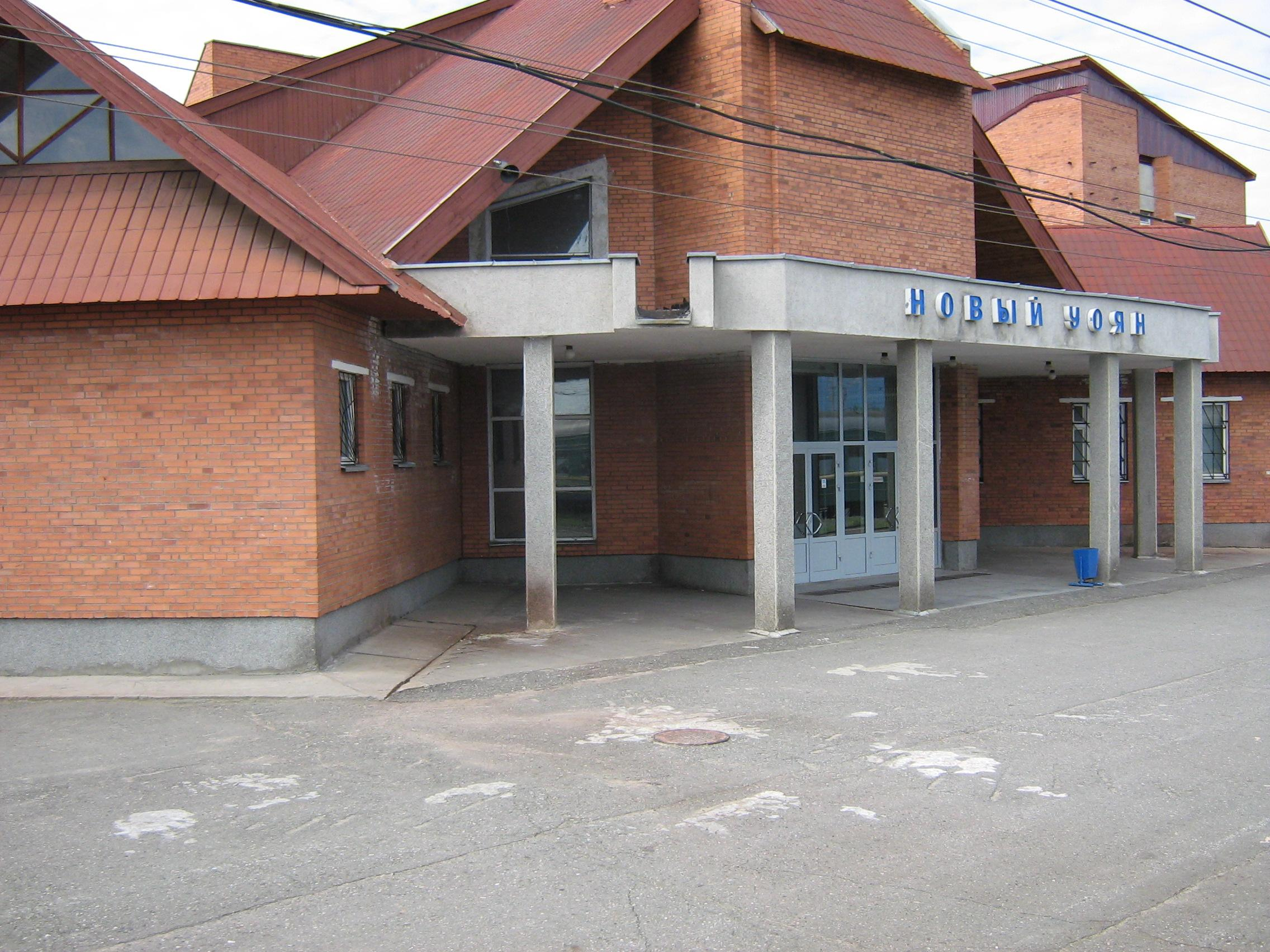 Railway station of Novy Uojan on Baikal Amur Mainline, Buryatia